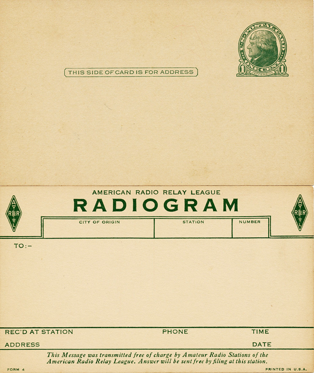 ARRL Radiogram delivery form postcard (both sides).